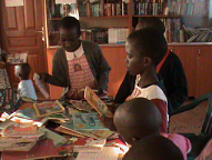 Readers in session at one of the Libraries